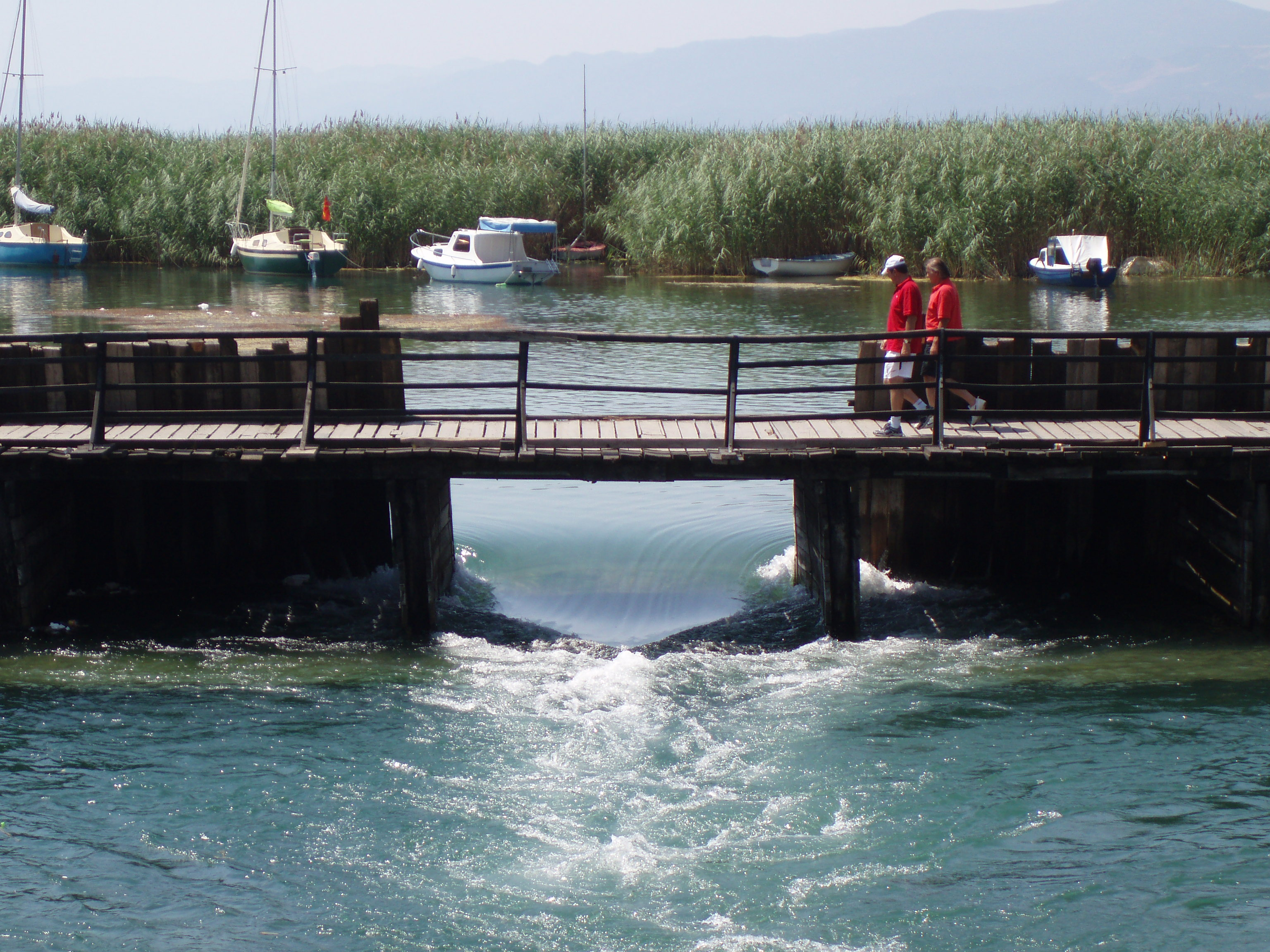 The water leaves Lake Ohrid in Struga, River Black Drin, Republic of Macedonia. Bridge of the Poets.